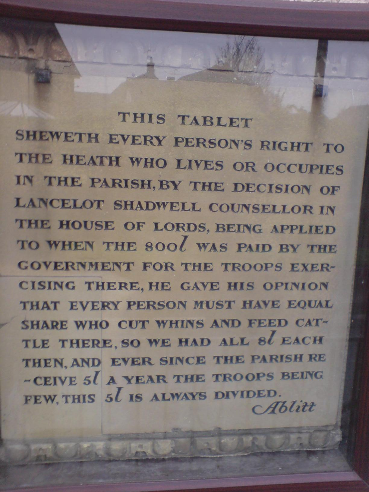 A stone plaque declaring the rights of the inhabitants of Rushmere St Andrew over Rushmere Common